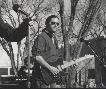 George Huntley in 1993.